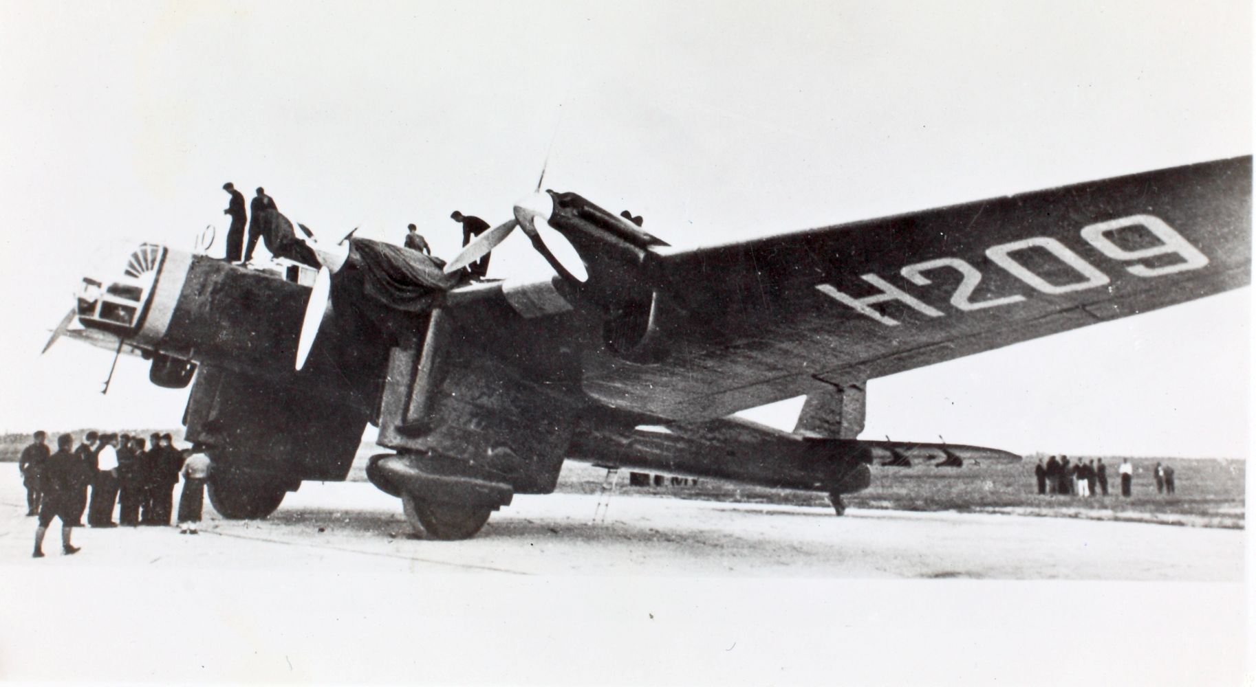 Catalog #: 15_002204 Title: Bolkhovitinov DB-A Collection: Charles M. Daniels Collection Photo Album Name: Soviet Aircraft Page #: 2 Tags: Soviet Aircraft, Charles Daniels, PUBLIC COMMONS.SOURCE INSTITUTION: San Diego Air and Space Museum Archive